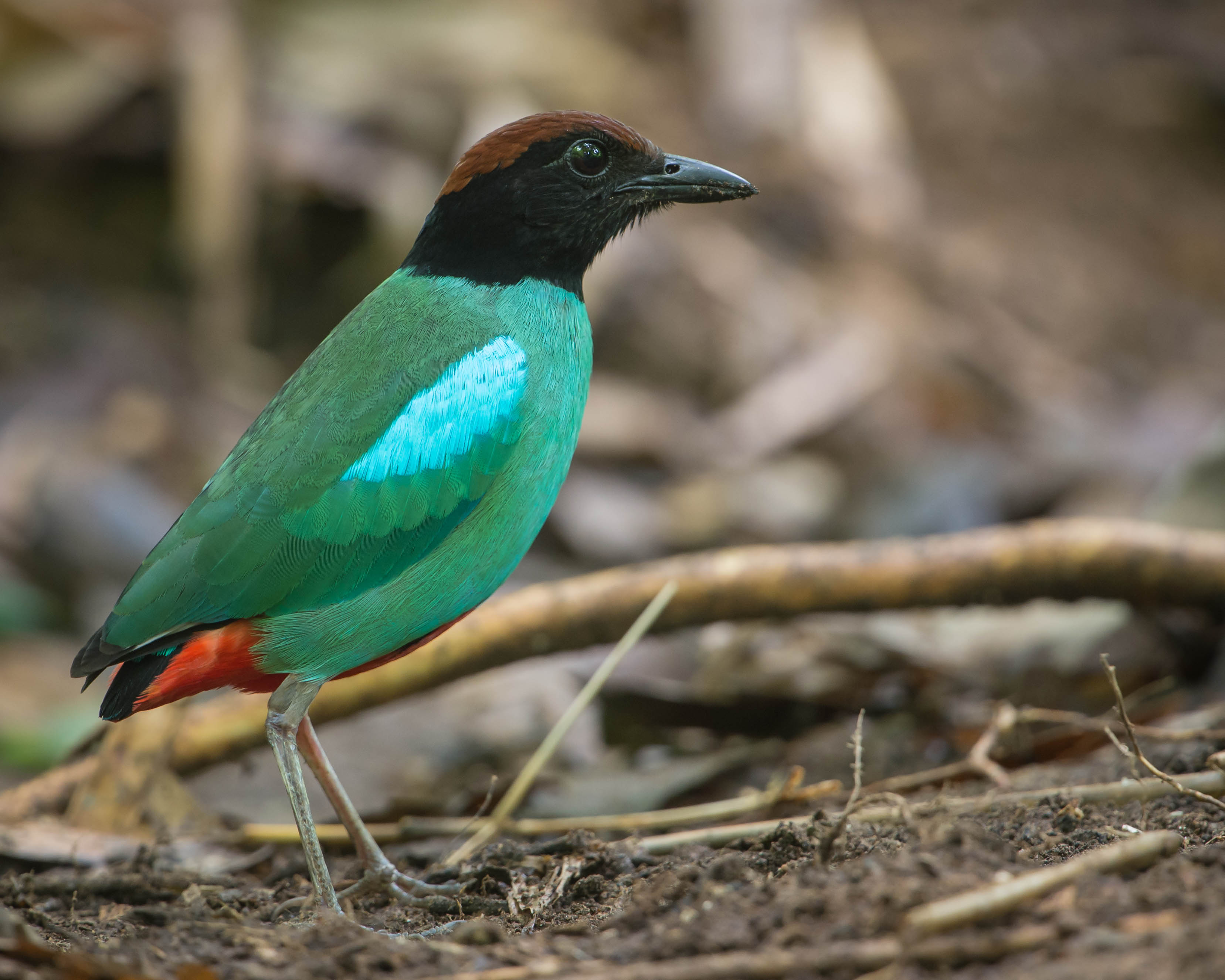 Hooded pitta in Kaeng Krachan National Park, Phetchaburi, Thailand, on 15 July 2013